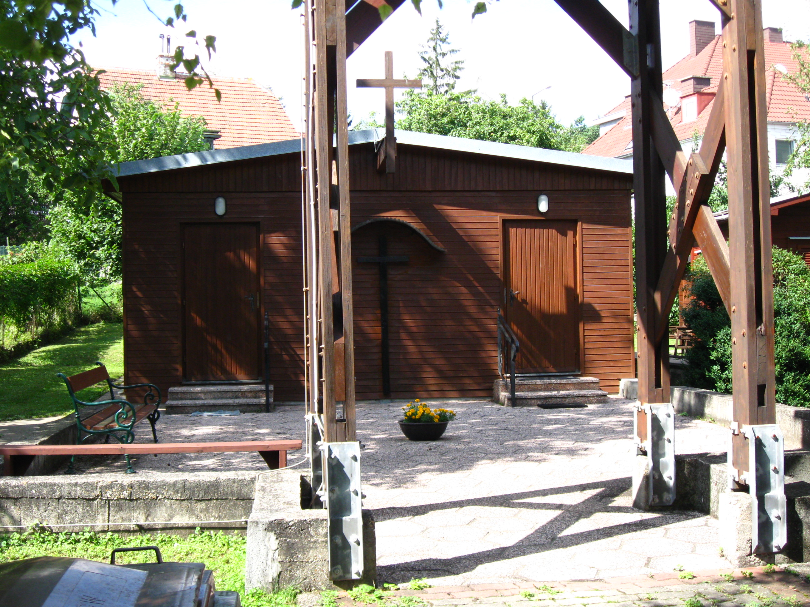 Fatima church, Vienna